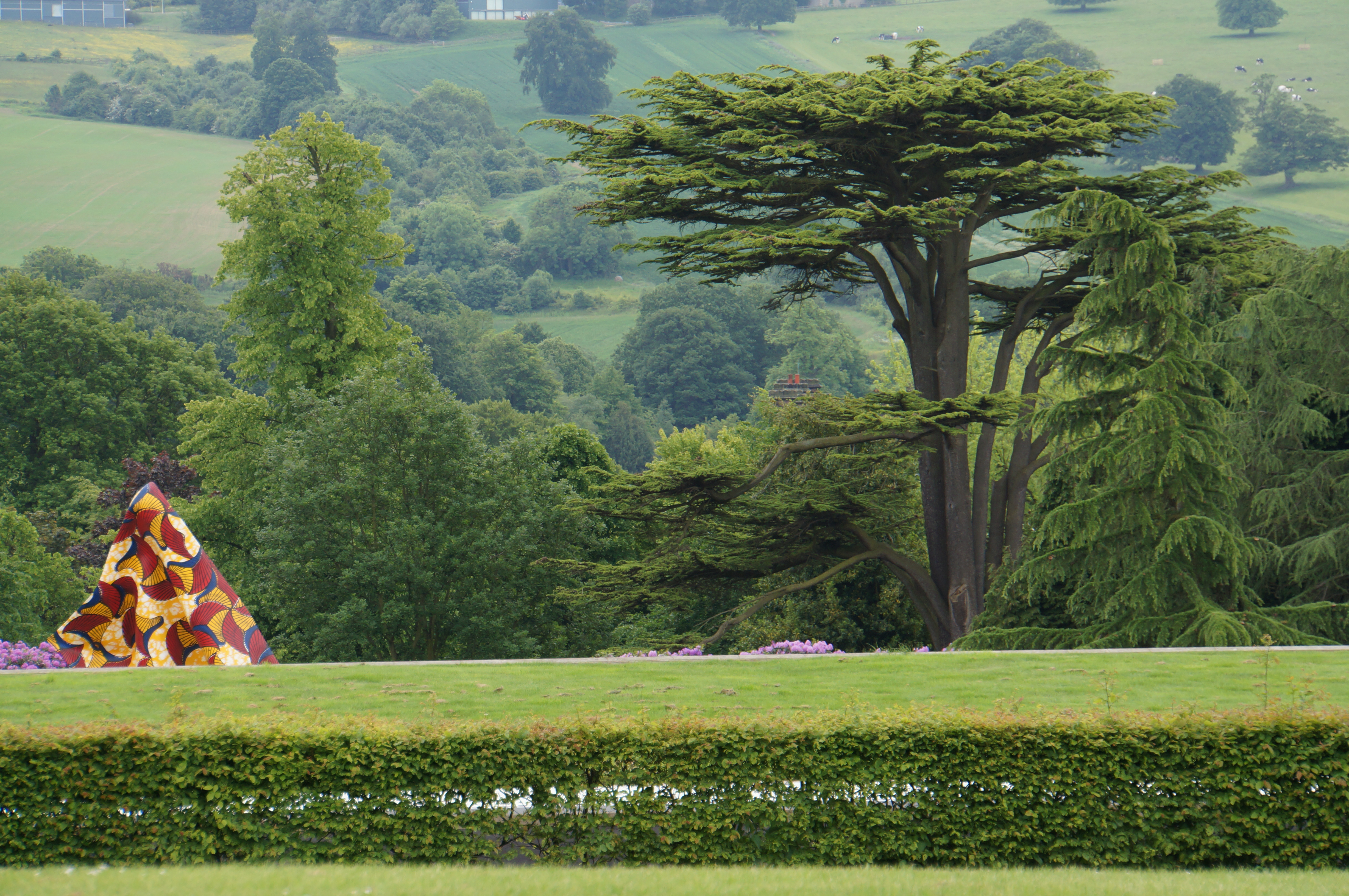 Yorkshire Sculpture Park with Yinka Shonibare MBE sculpture